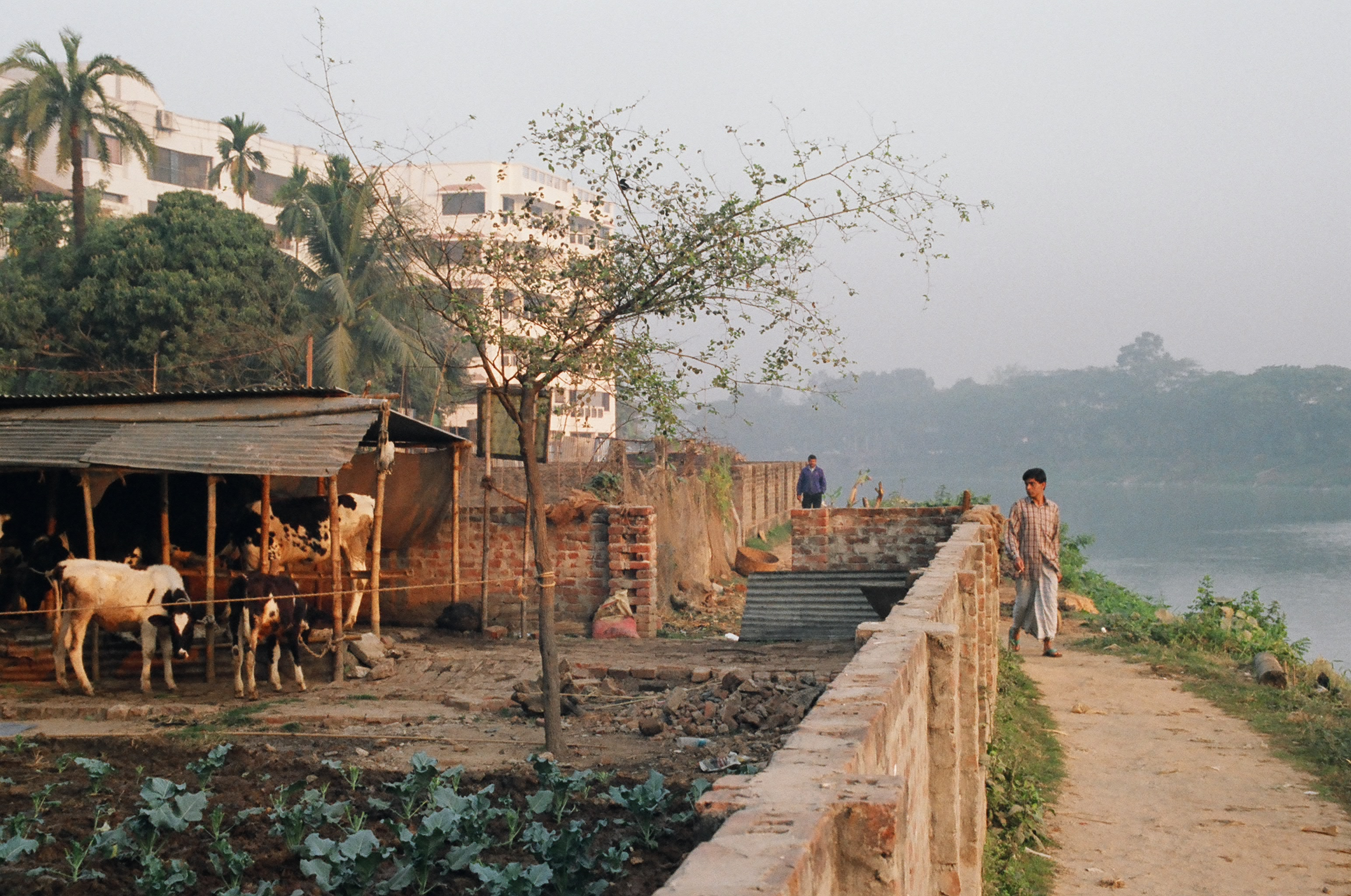 A farm in the middle of Dhaka, Bangladesh.